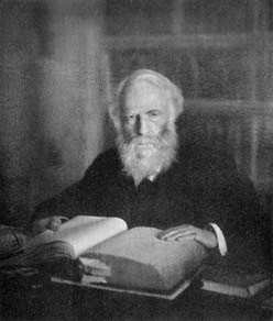 "Grant Duff, Diplomat and Man of Letters", The Twickenham Museum (retrieved 12 April, 2007)